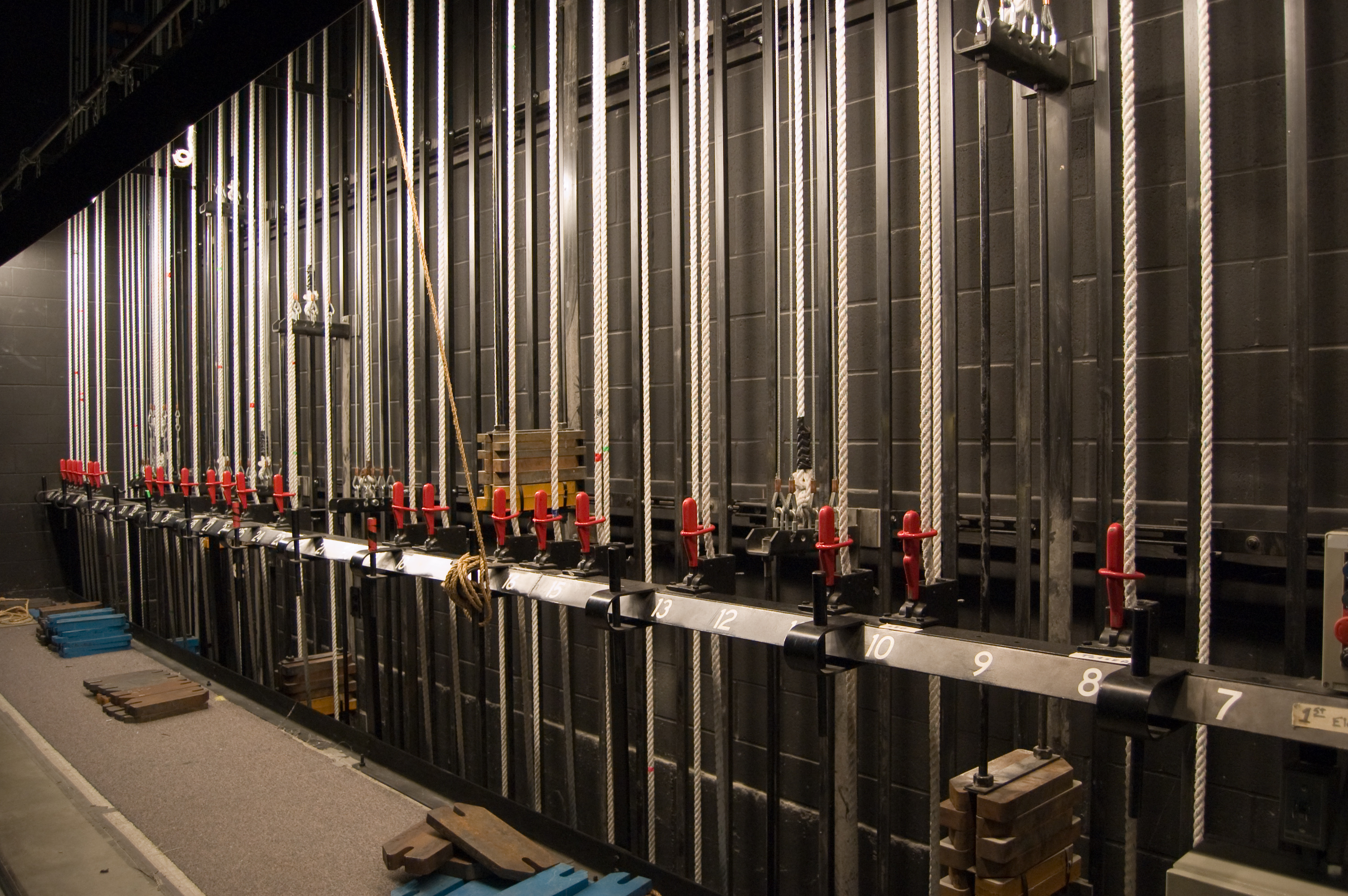 The locking rail/pinrail of the South Whidbey High School auditorium. SWHS primarily uses a counterweight fly system, but the rail also has pins for spot lines.